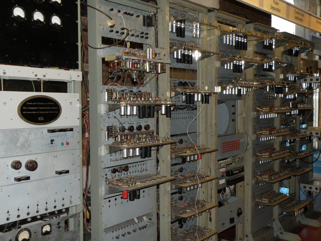 A replica of the 1948 Small Scale Experimental Machine "Baby" on display at the Museum of Science and Industry in Manchester, United Kingdom. The replica was rebuilt at the University in 1995-98 by The Computer Conservation Society with sponsorship and engineering services from ICL. It was the world's first stored program computer.